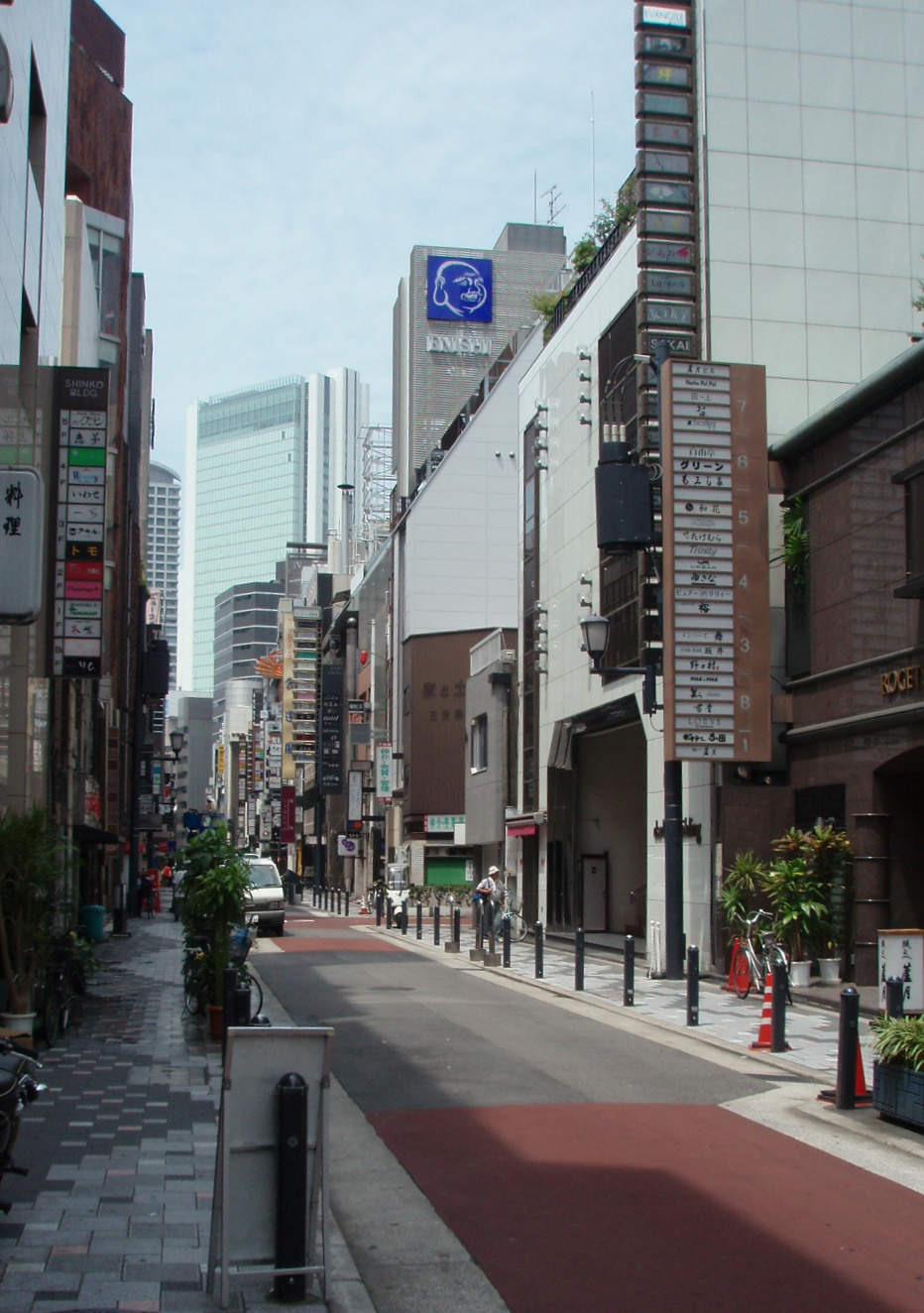 Kita-shinchi (Kita-ku, Osaka)